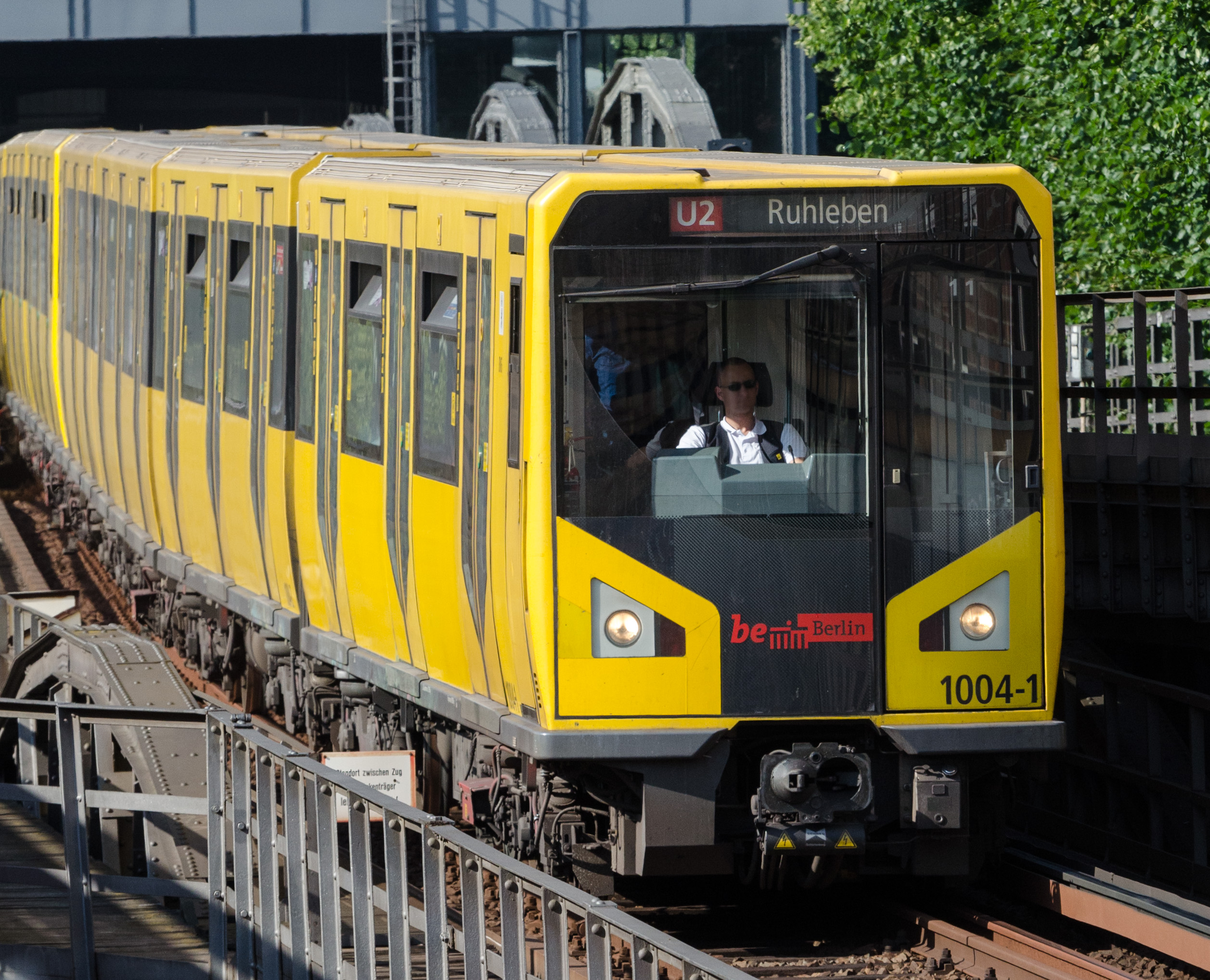 A BVG HK series 1004 leaving Mendelssohn-Bartholdy-Park station serving line U2